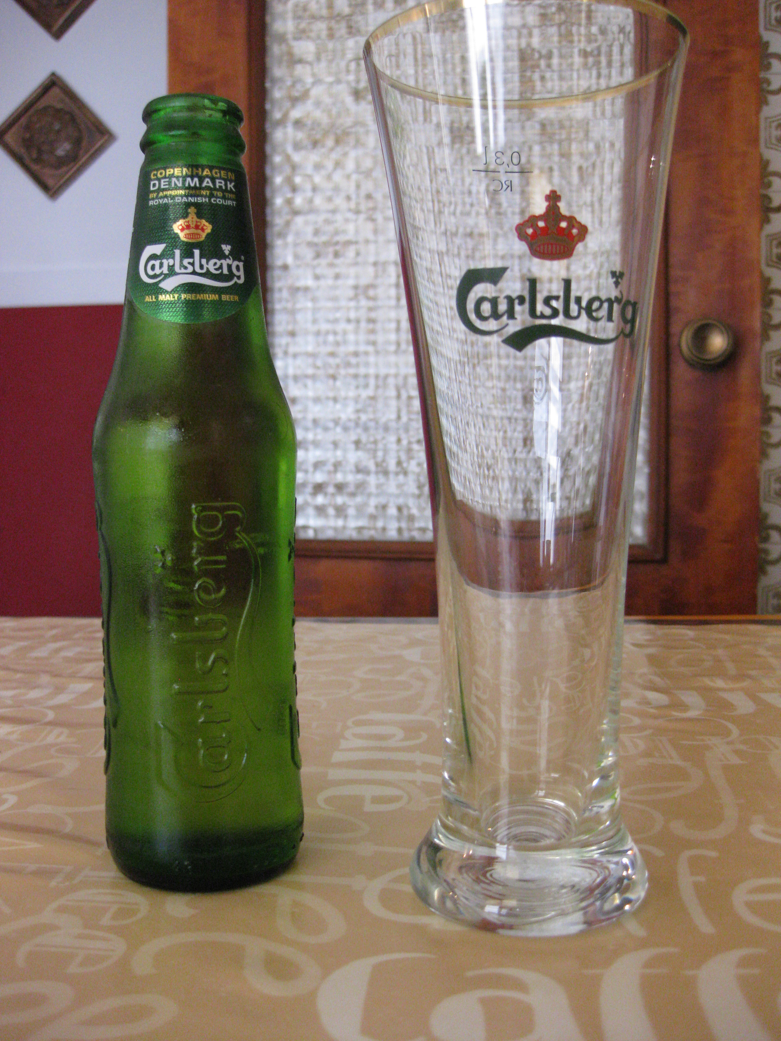 Bottle and glass of Carlsberg beer.